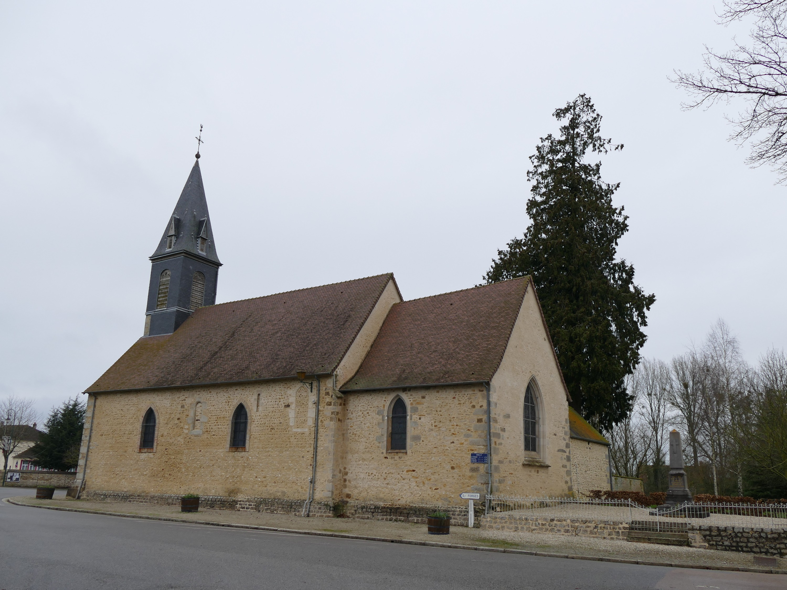 Saint-Hilaire's church in Semallé (Orne, Normandie, France).